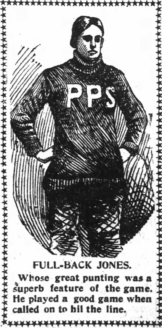 Georgia Bulldogs fullback A. Clarence Jones depiction